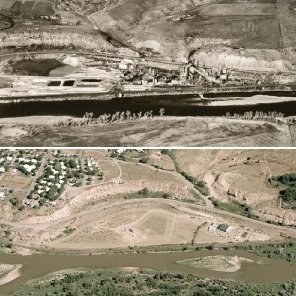 Combined image of the evolution of uranium tailing Old Rifle Processing Site (Colorado, USA) from 1957 (above) until 2008 (below).